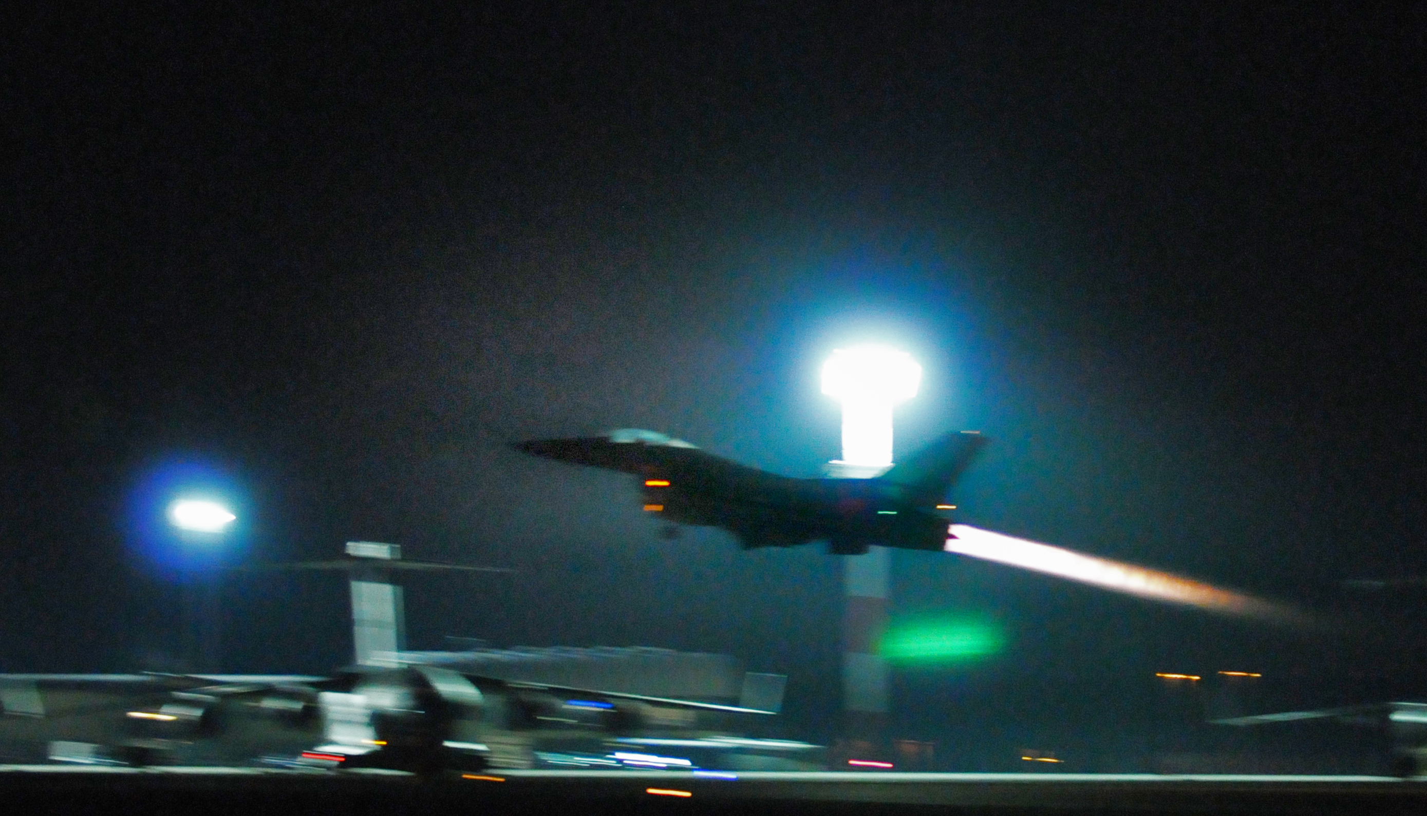 A U.S. Air Force F-16 Fighting Falcon fighter aircraft from the 480th Fighter Squadron takes off from Spangdahlem Air Base, Germany, March 19, 2011, in support of Joint Task Force (JTF) Odyssey Dawn.